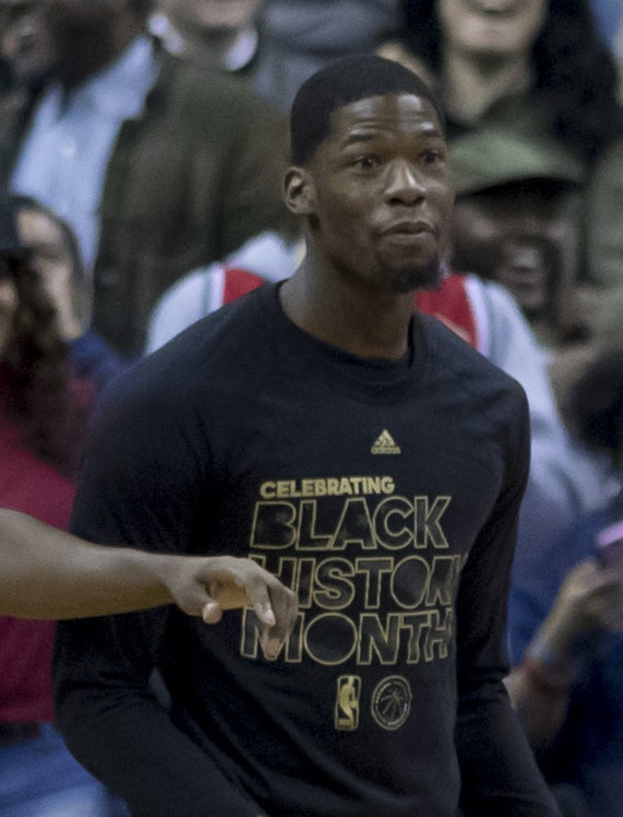 DeAndre Liggins during a game against the Washington Wizards on February 6, 2017 at Verizon Center in Washington, DC.